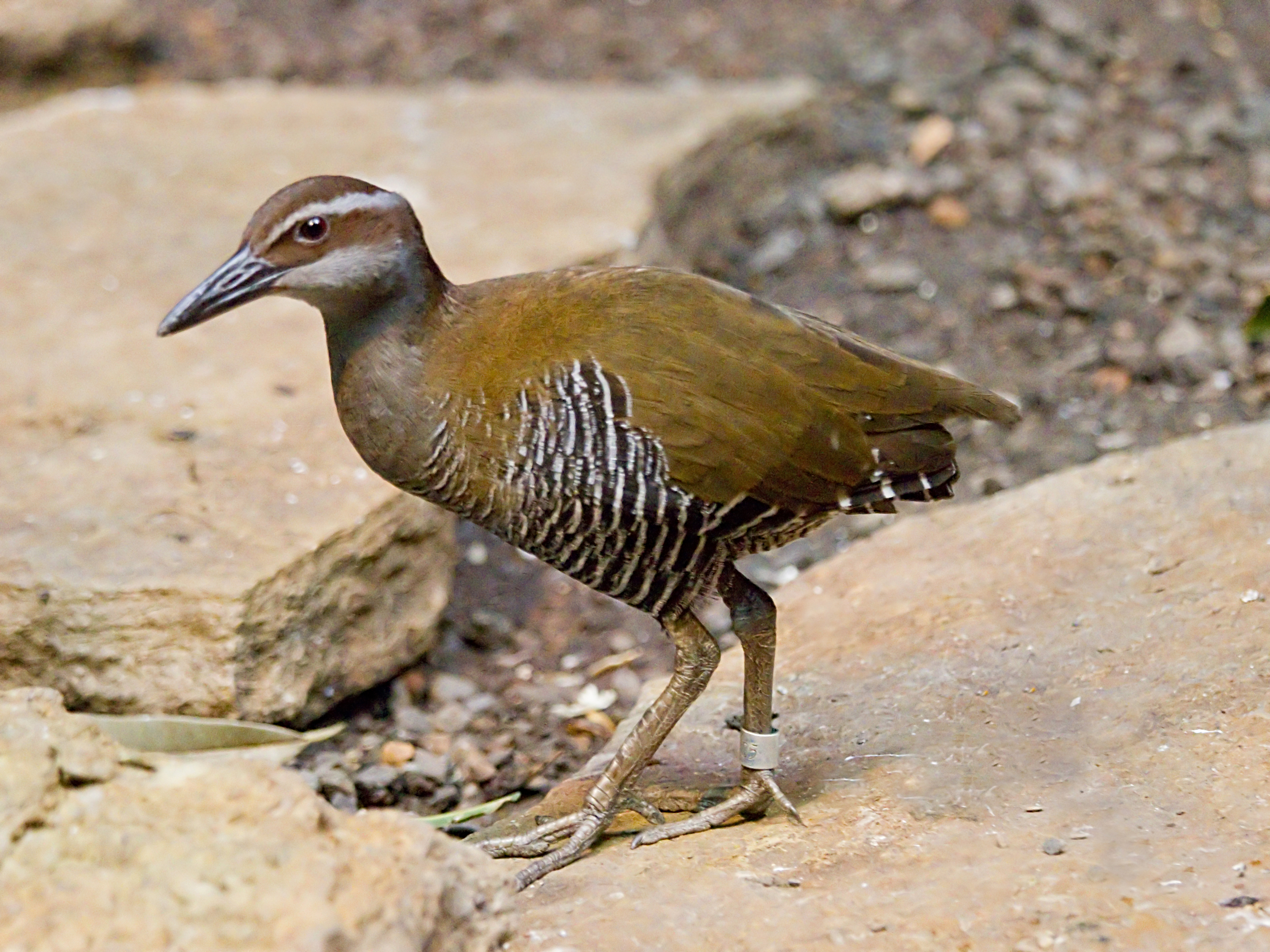 Guam Rail at the Cincinnati Zoo.